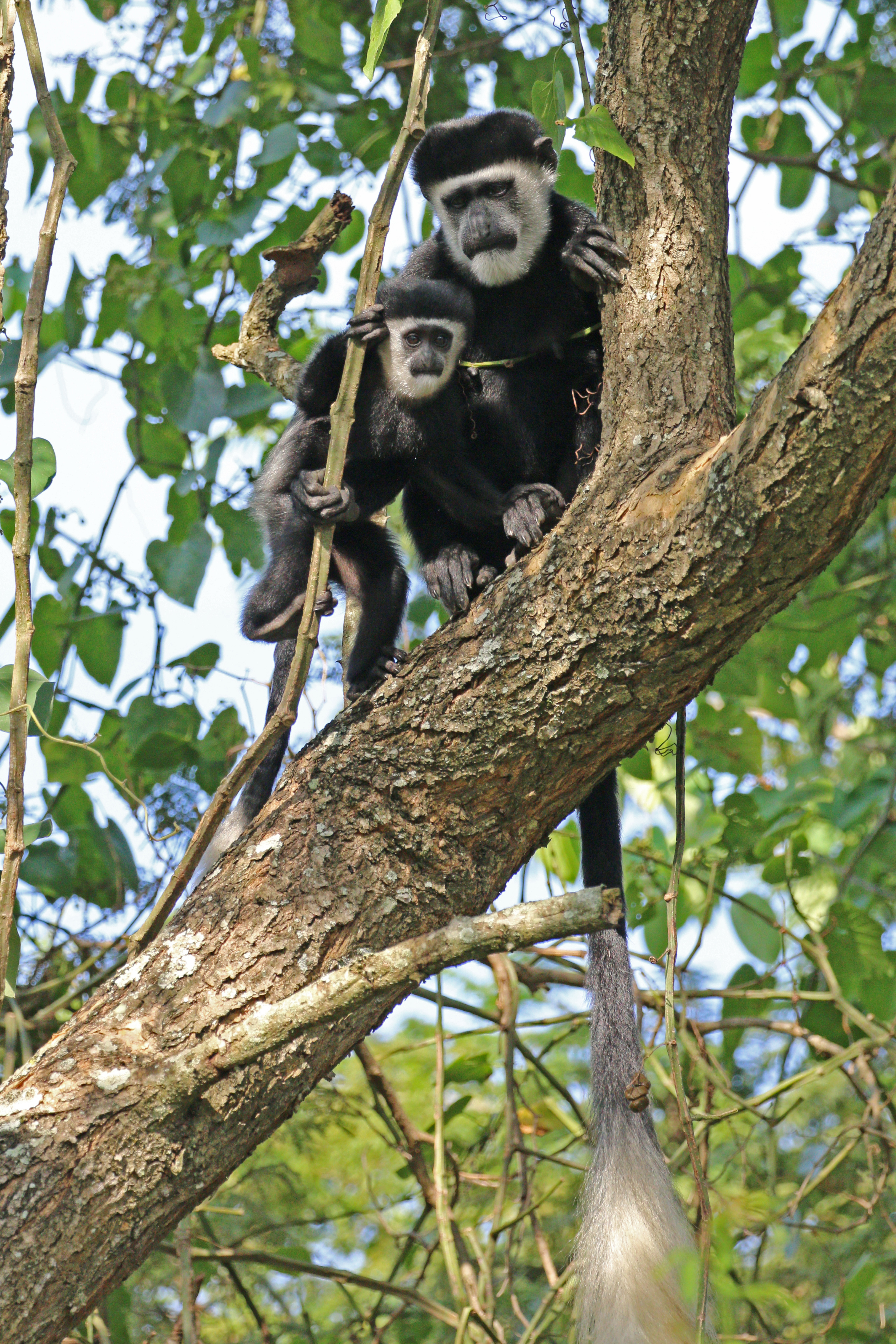 Eastern black-and-white colobus (Colobus guereza occidentalis), adult with juvenile, Semliki Wildlife Reserve, Uganda